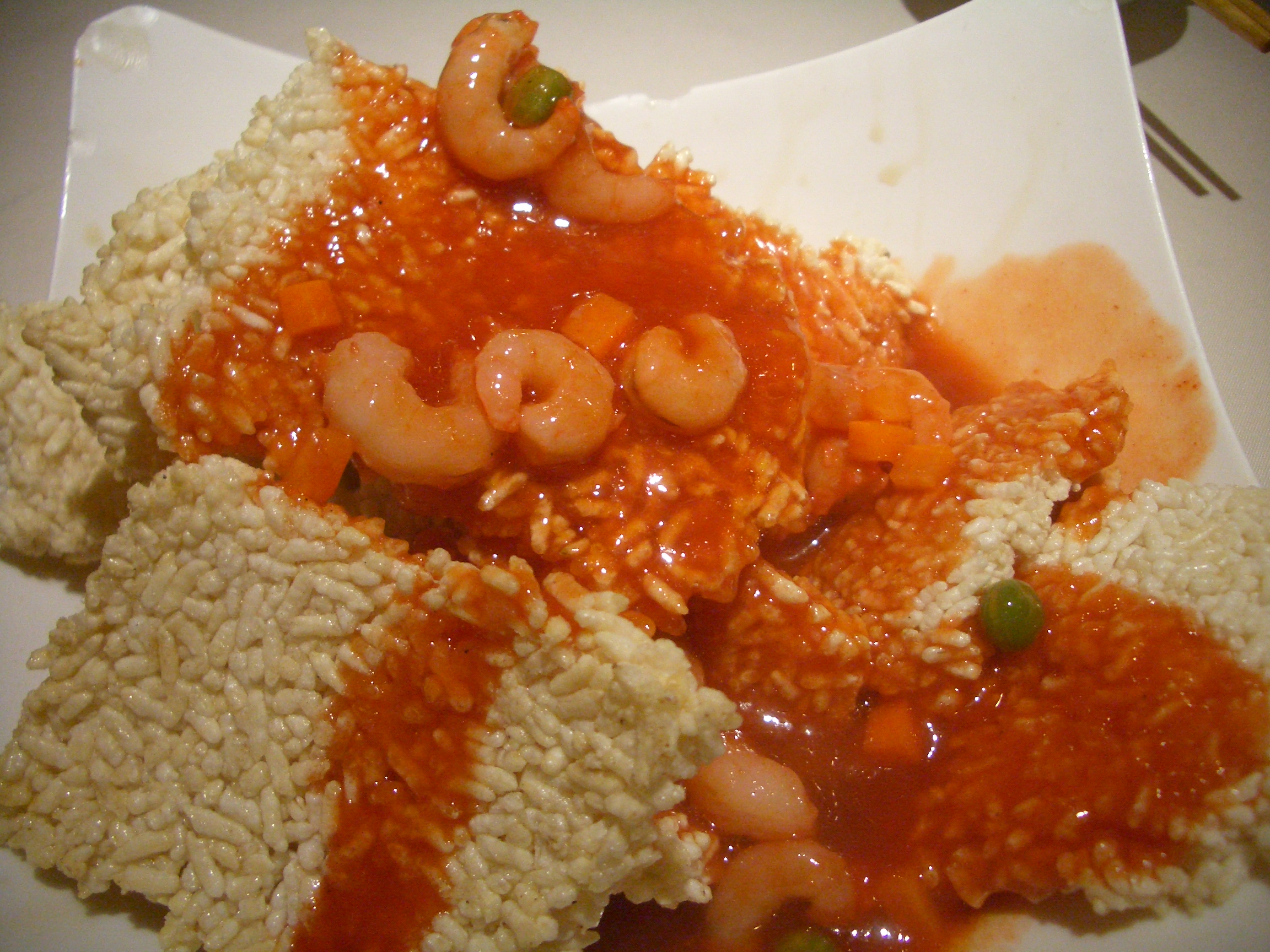 Sweet and sour shrimp over rice cakes (guoba). It's not really rice cakes, but it's pretty close. The rice you see there is definitely crunchy, and the red sauce is definitely sweet and sour. This is a Shanghai style dish but oddly enough it's the first time I've ever had it.